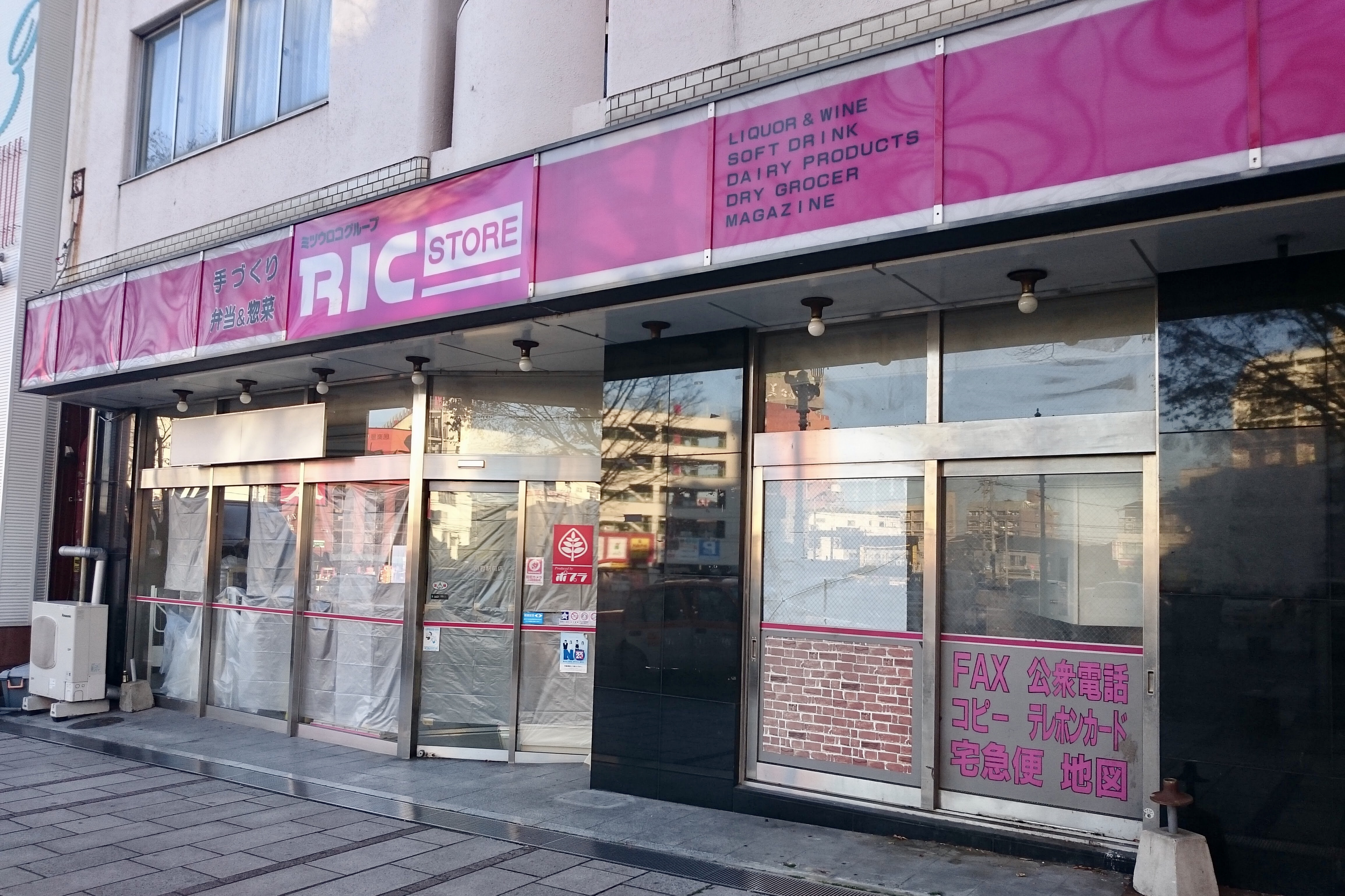 RIC Store Beppu-Stn. shop(closed)